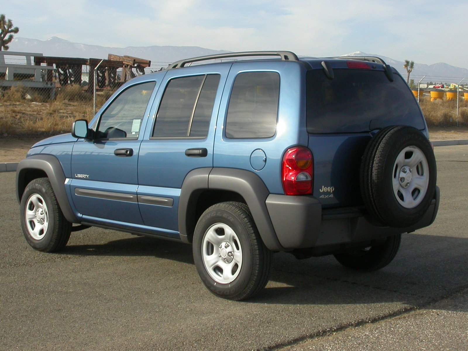 2004 Jeep Liberty, photographed in USA.